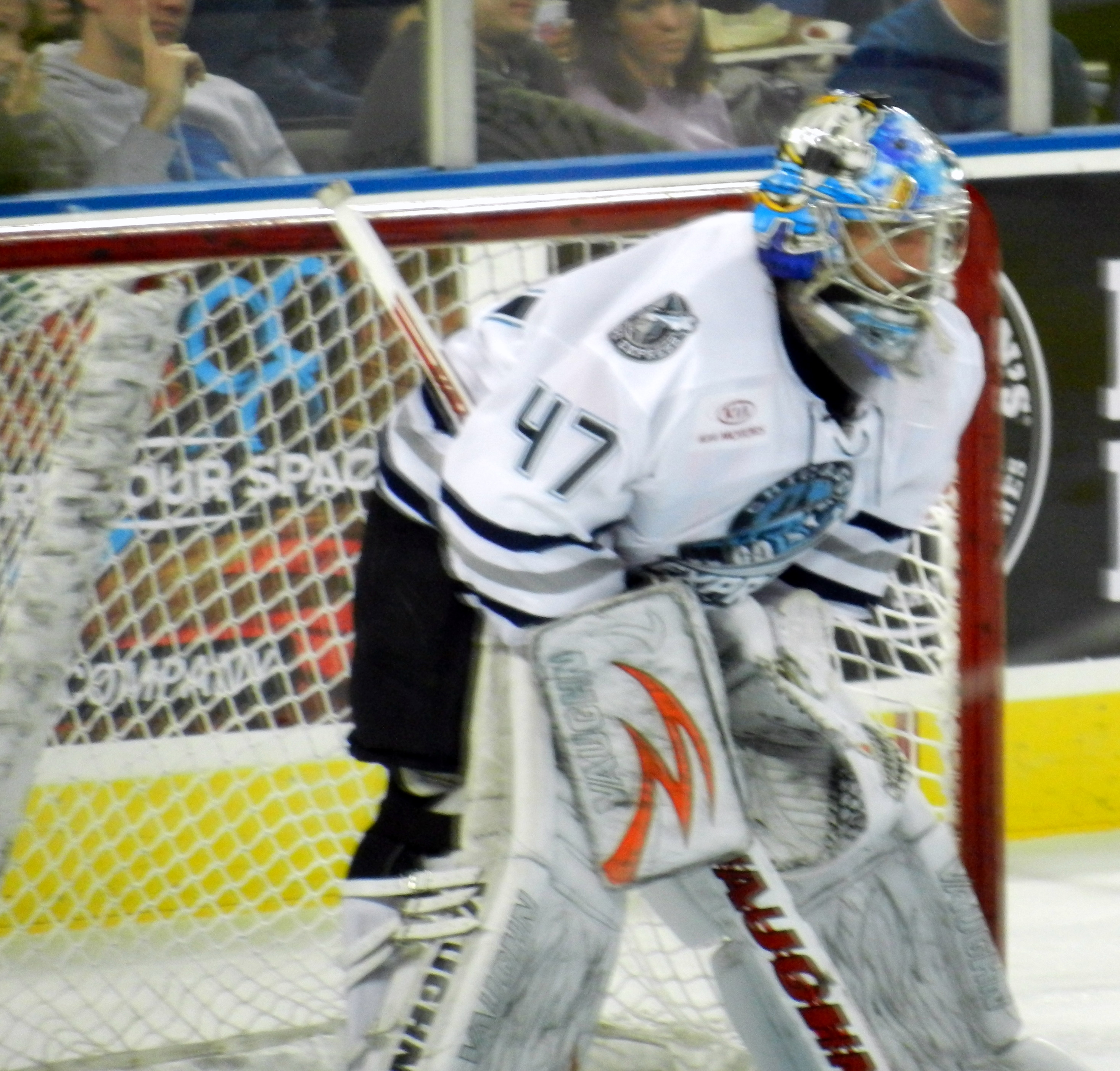 Rob Nolan playing for the Chicago Express in a game vs. the Kalamazoo Wings